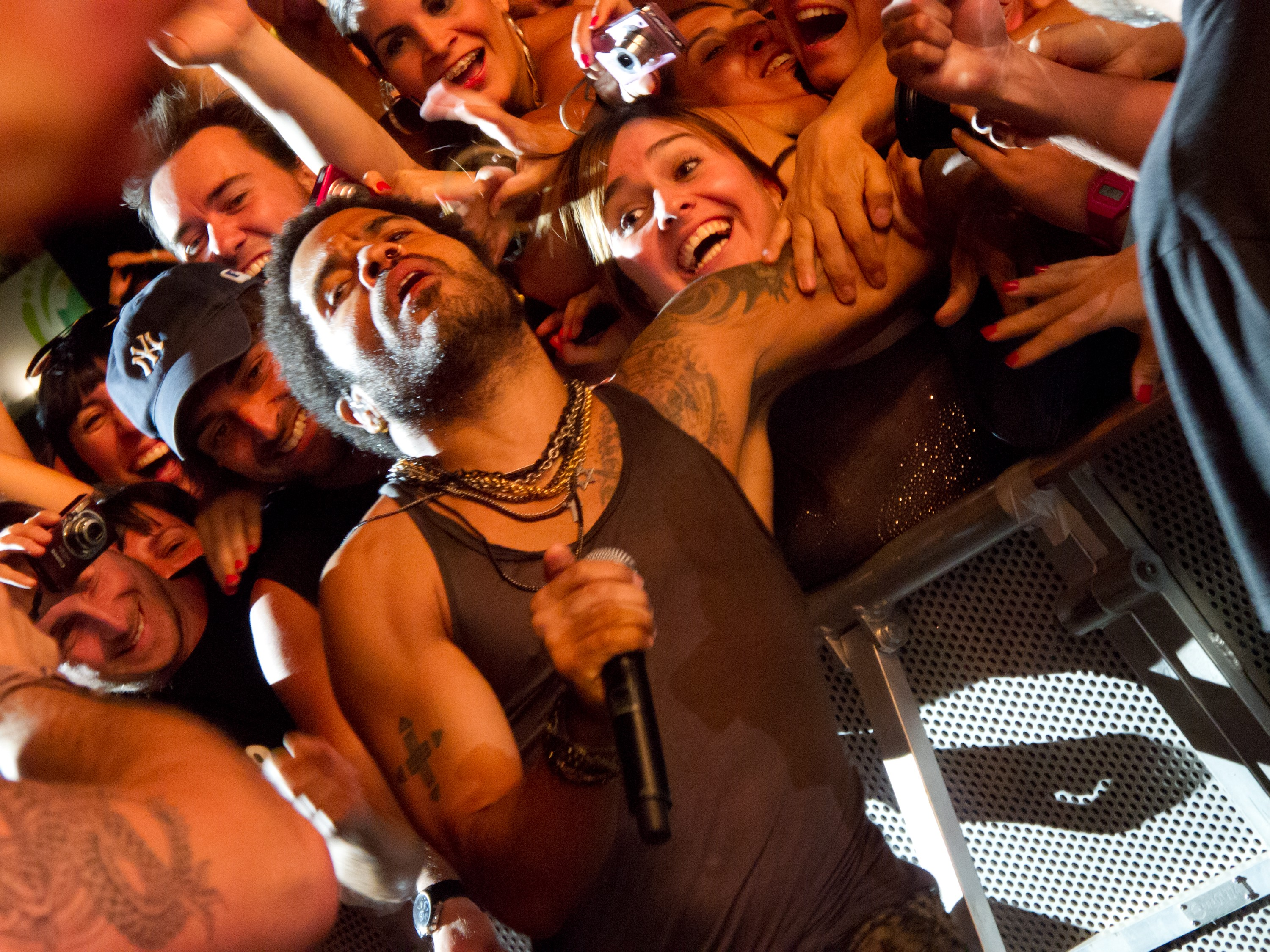 Lenny Kravitz live in Rock in Rio Madrid 2012.